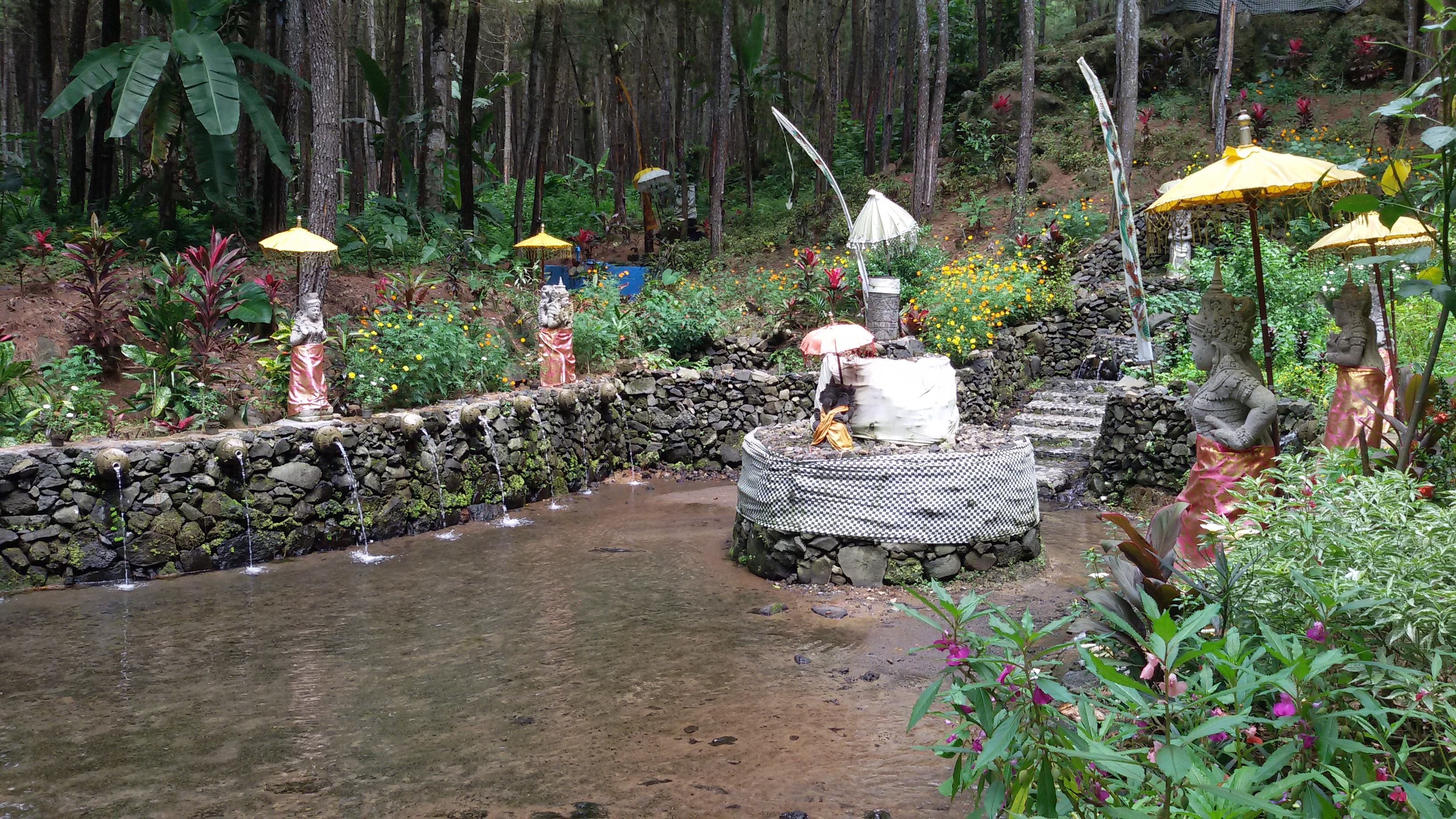 Holy fountain at Pura Beji Ananthaboga